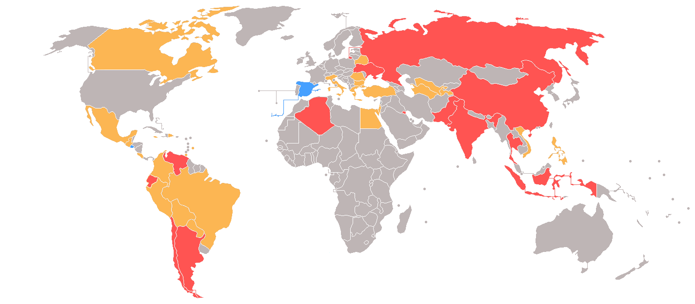 Special 301 Report as of 2013: Priority Foreign Country Priority Watch List Watch List Section 306 Monitoring Out-of-Cycle Review/Status Pending